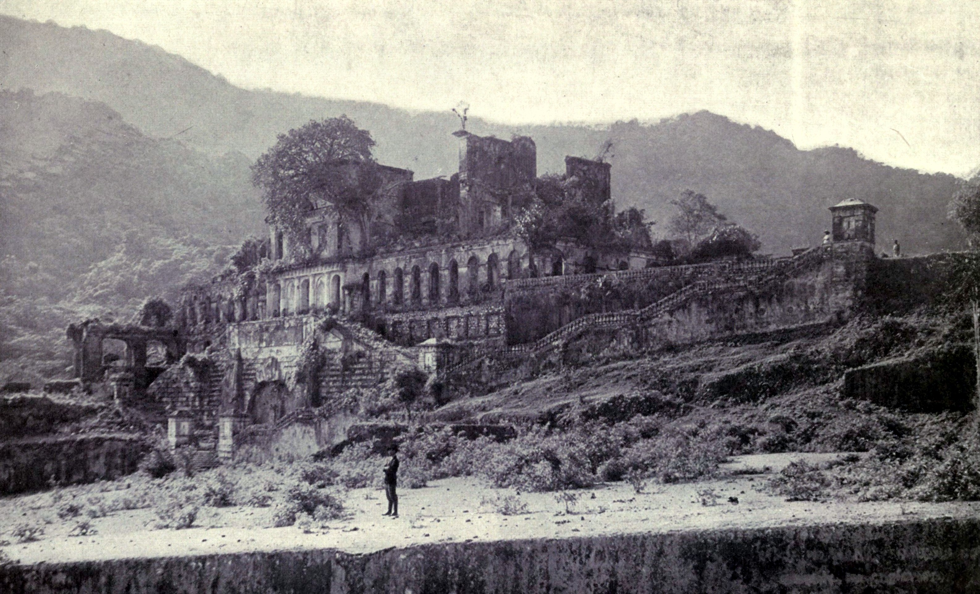 Scanned copy of book, Haiti, her history and her detractors by by Jacques Nicolas Léger, published in 1907 from